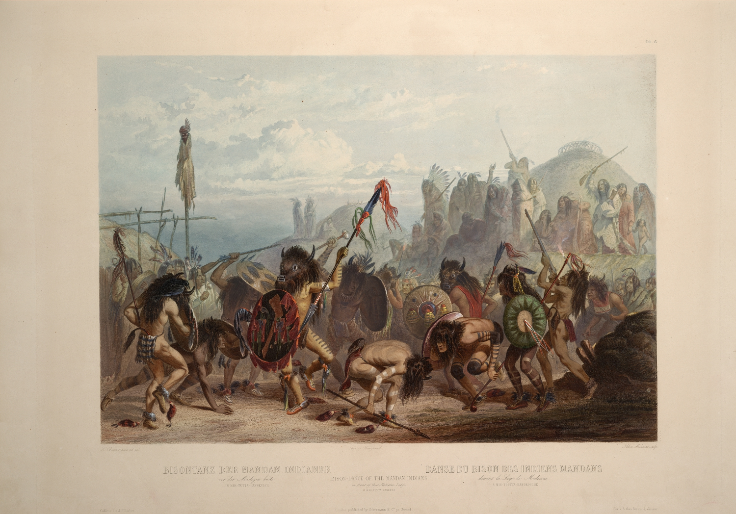 Aquatint by Karl Bodmer (1809 - 1893)